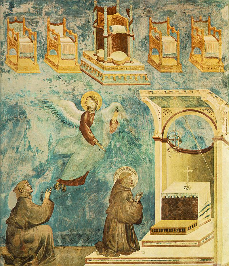 Legend of St Francis